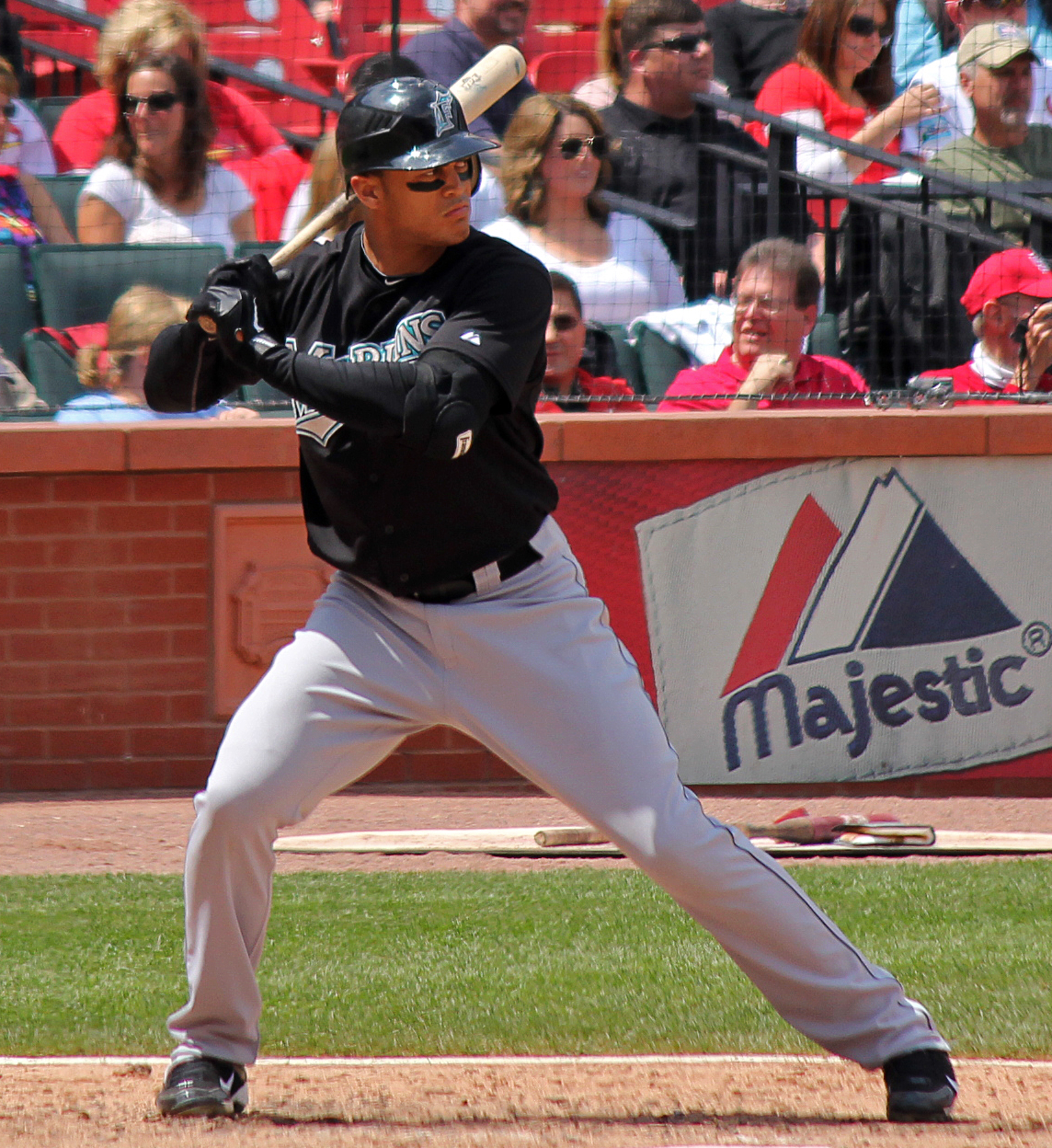 Giancarlo Stanton bats at Busch Stadium, 2011